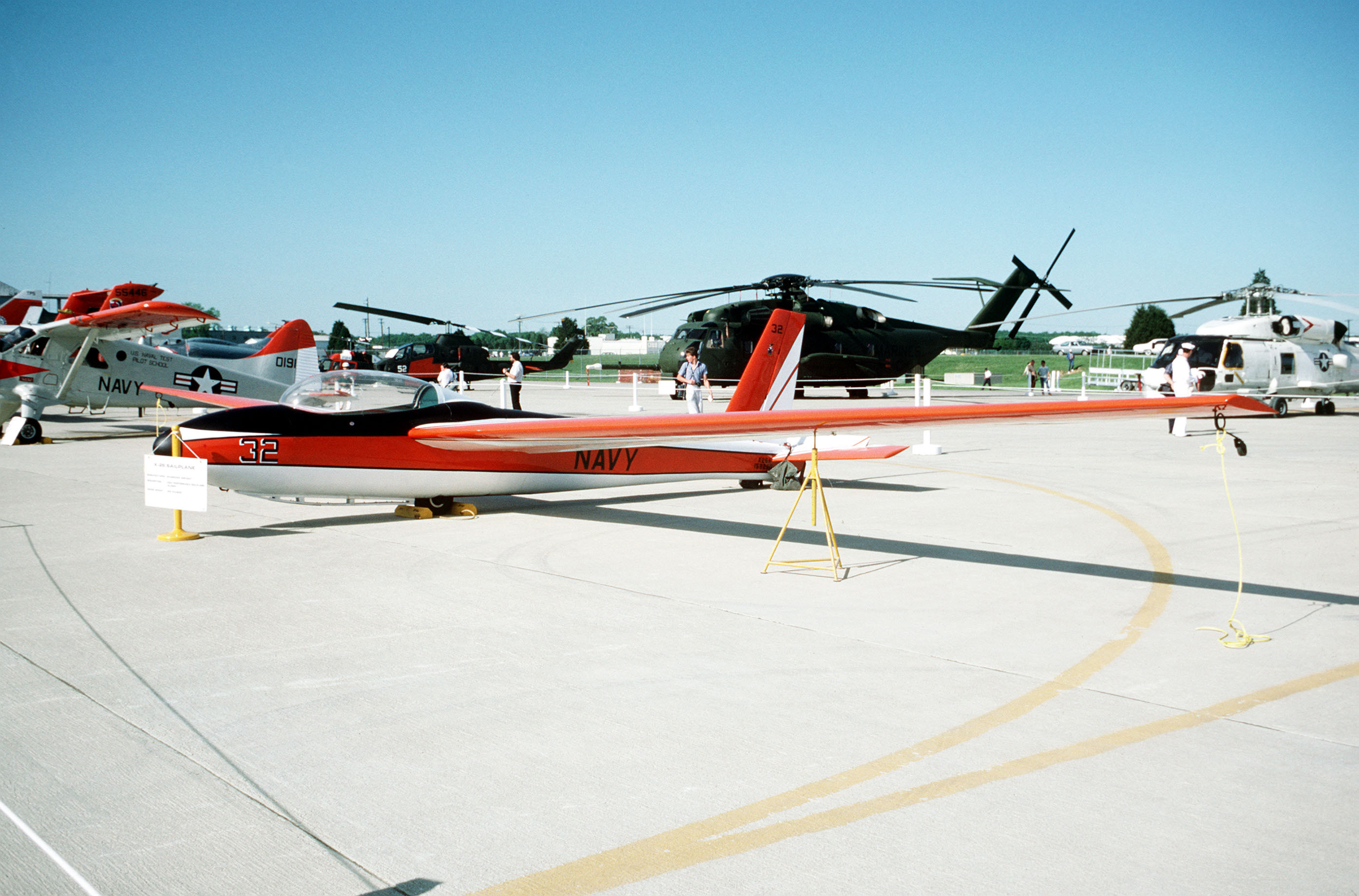 A left front view of an X-26 sailplane on display at the open house air show. Location: NAVAL AIR STATION PATUXENT RIVER, MARYLAND (MD) UNITED STATES OF AMERICA (USA)